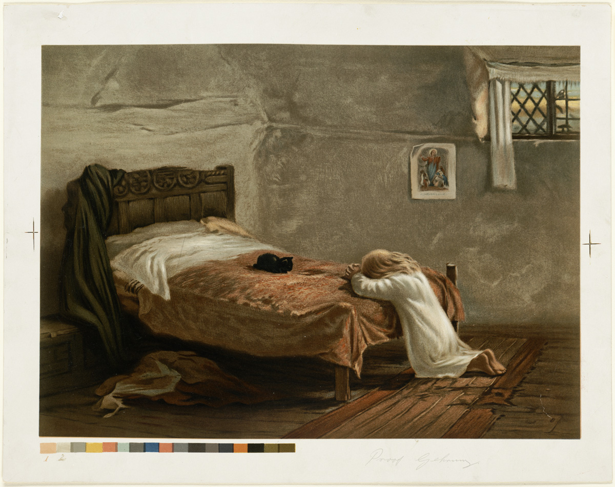 File name: 07_11_001160 Title: Evening Prayer Creator/Contributor: L. Prang & Co. (publisher) Date issued: 1861-1897 (approximate) Copyright date: Physical description note: Proof print Genre: Chromolithographs; Genre prints; Proofs Location: Boston Public Library, Print Department Rights: No known restrictions Flickr data on 2011-08-04: Camera: Sinar AG Sinarback 54 FW, Sinar m License: CC BY 2.0 User: Boston Public Library BPL